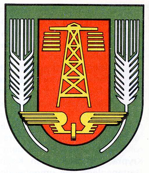 Former Coat of Arms of Falkenberg/Elster